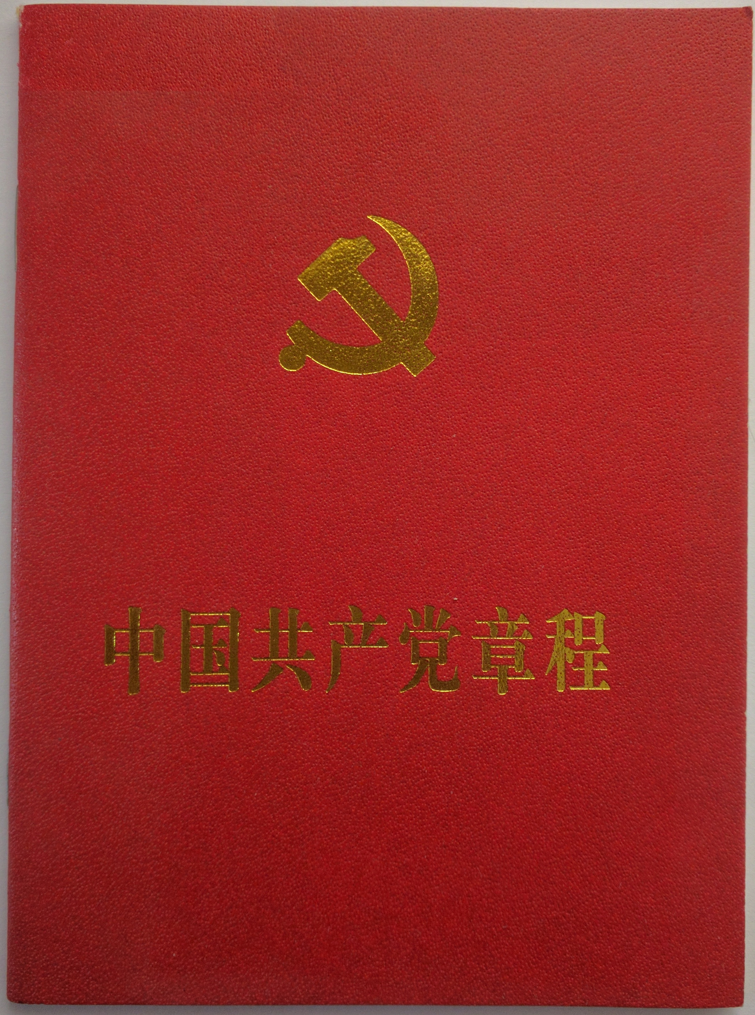 Photograph of front cover of Constitution of the Communist Party of China, the first printing in Hunan Province for October 2007 edition. The emblem of the Communist Party of China is placed on the upper position, with Simplified Chinese character "中国共产党章程"(Constitution of the Communist Party of China) placed at the lower position.